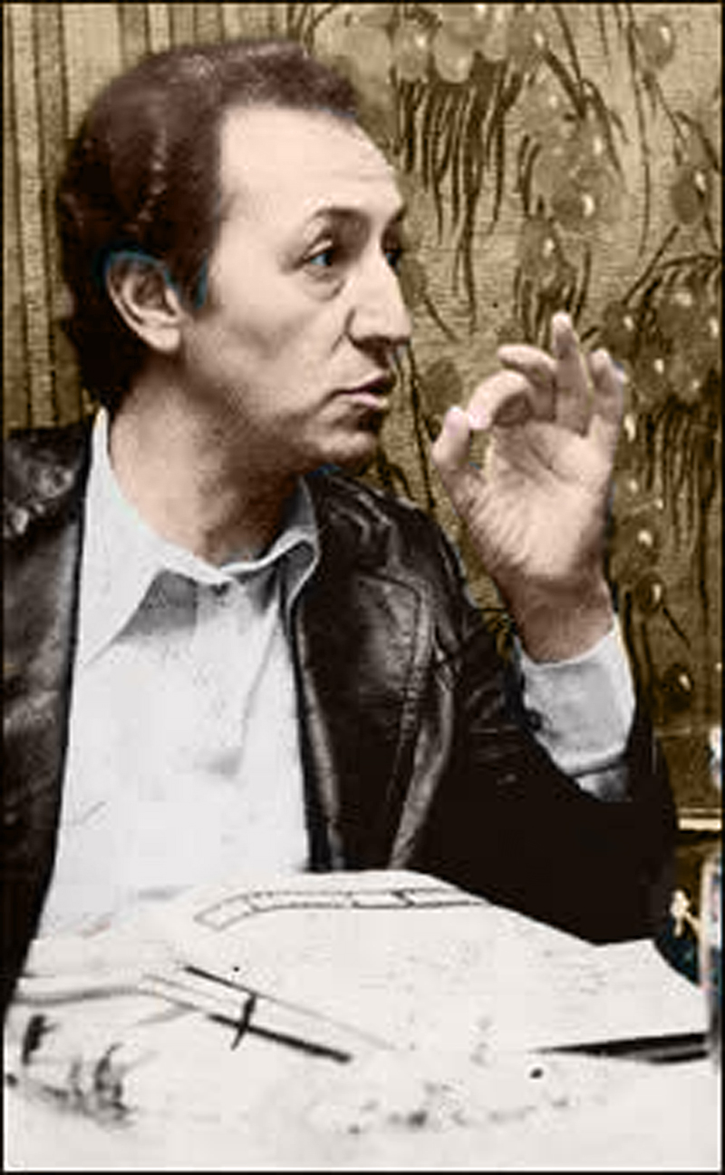 Bolivian writer and politician Marcelo Quiroga Santa Cruz